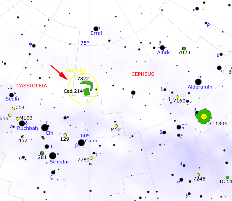 Map of Cepheus OB4